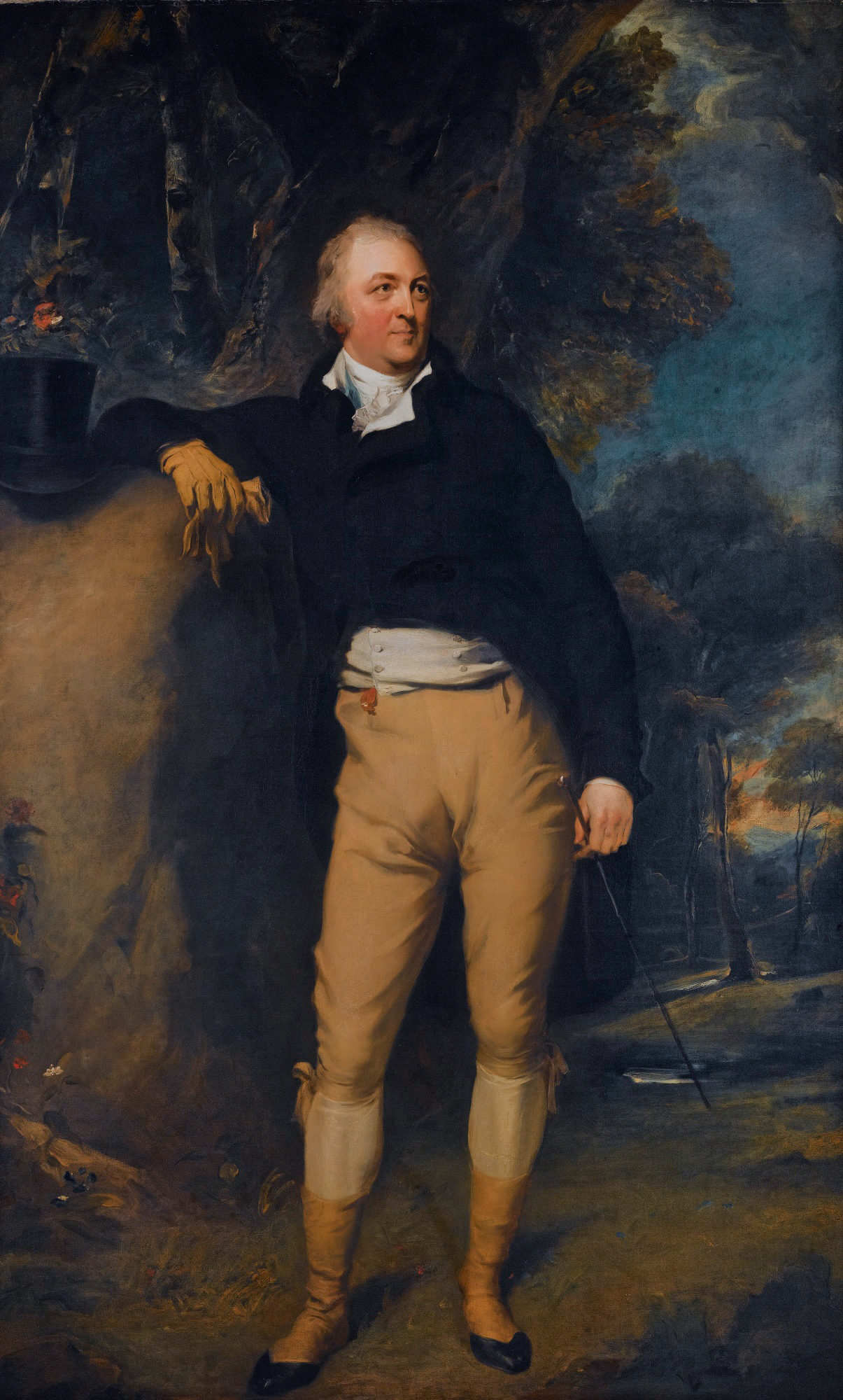 Thomas Lister, 1st Baron Ribblesdale (1752-1826) oil on canvas 240 x 149.2 cm circa 1805